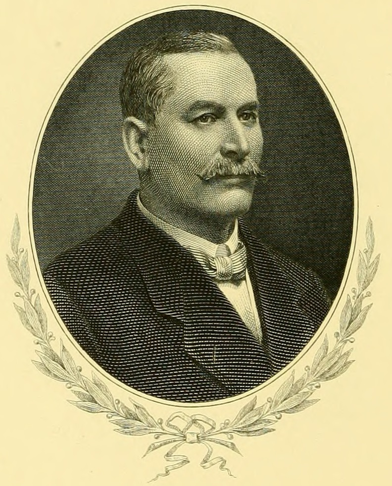 Charles Martin (Illinois Congressman) 2